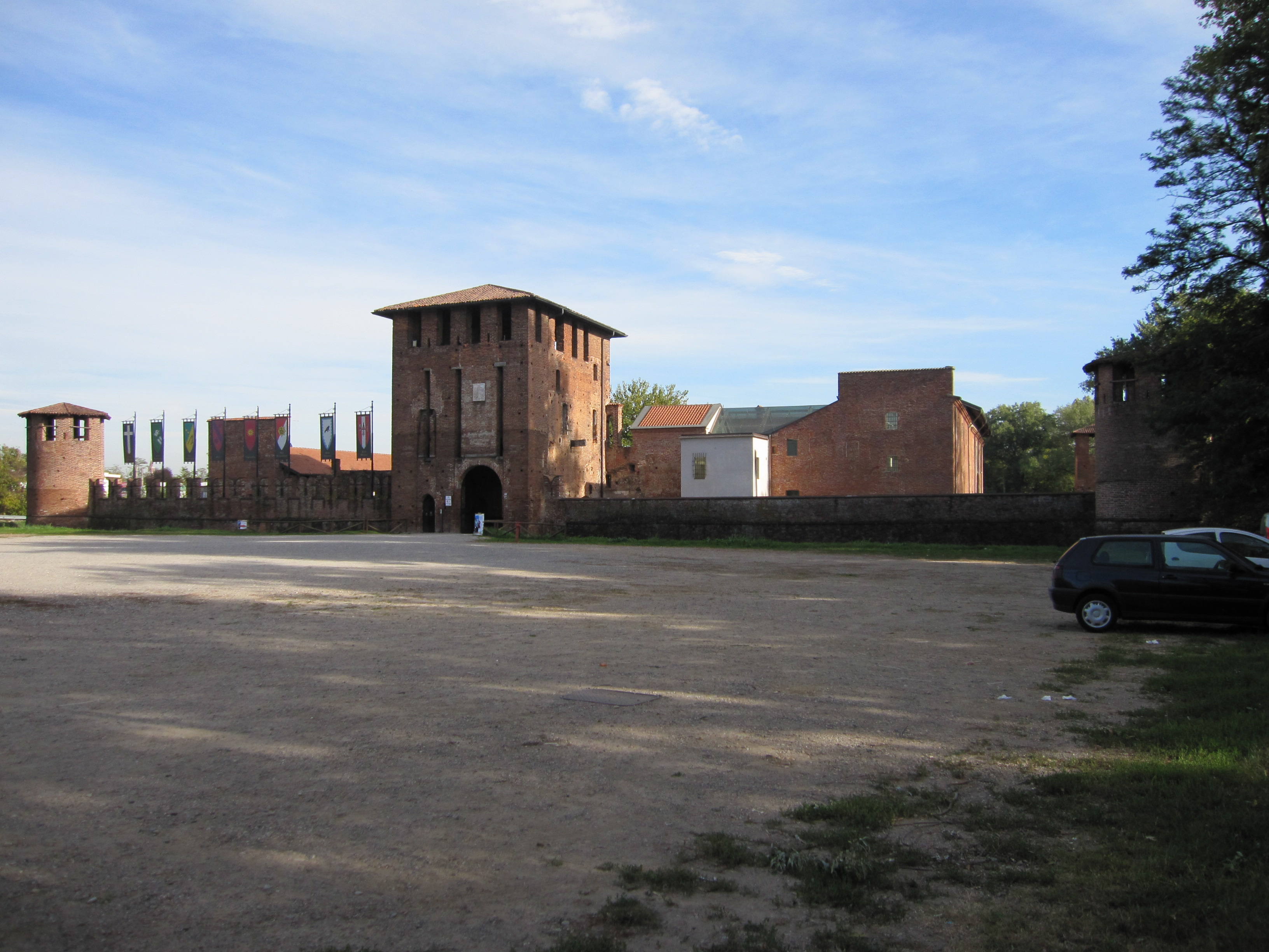 St. George's castle (in Legnano, Italy) view from the north